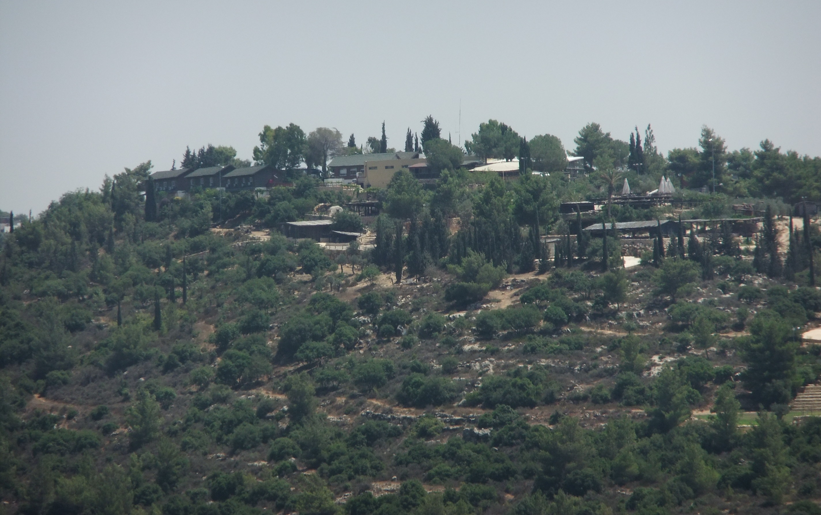 Yad Hashmona from a look out in the Harei Yehuda national park